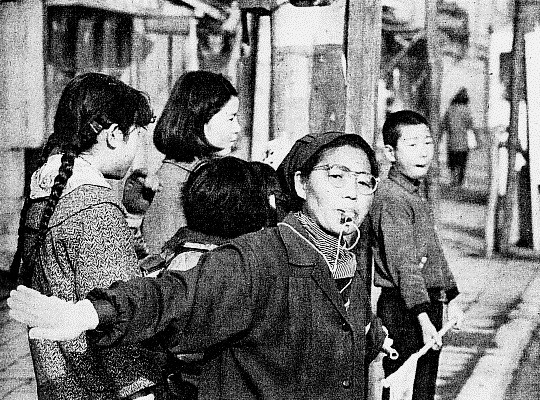 Japanese lollipop woman circa 1960